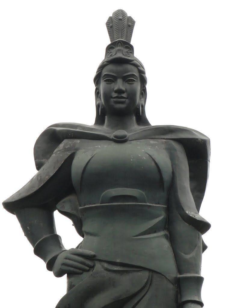 Statue of Madam Lê Chân in Haiphong, Vietnam.